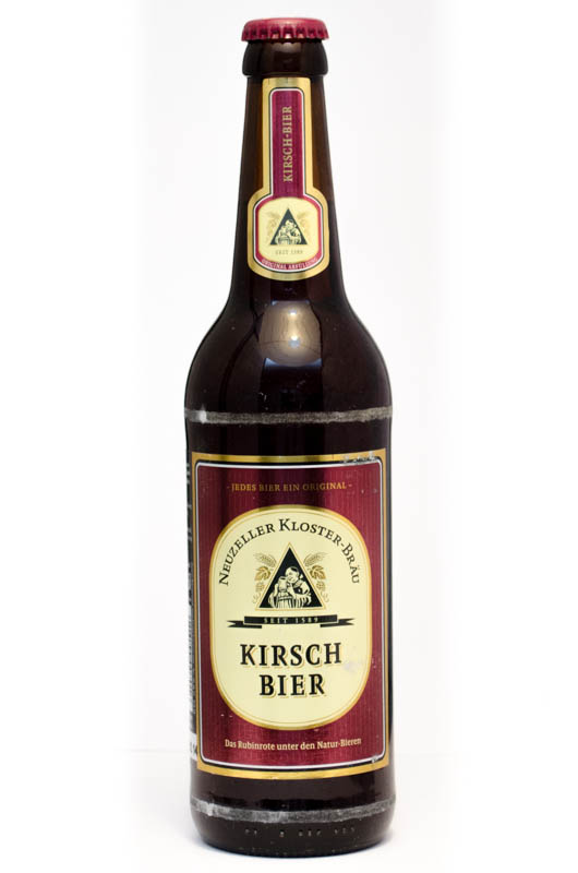 Kirsch Bier Neuzeller Kloster-Brau Jedes Bier Ein Original Das Rubinrote unter den Natur-Bieren Seit 1589